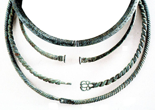 Bronze torcs, city museum of Épernay.